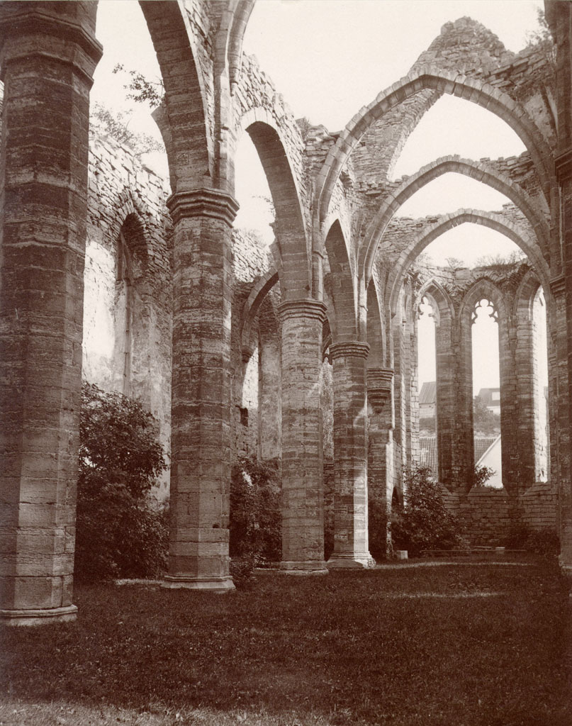 Saint Karin (Saint Katarina) medieval church ruin in Visby